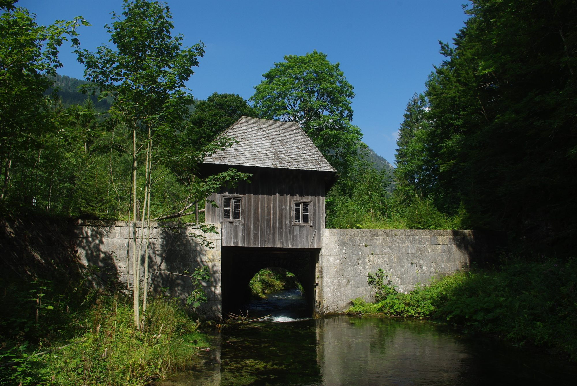 Seeklause am Förchensee bei Ruhpolding This is a photograph of an architectural monument.